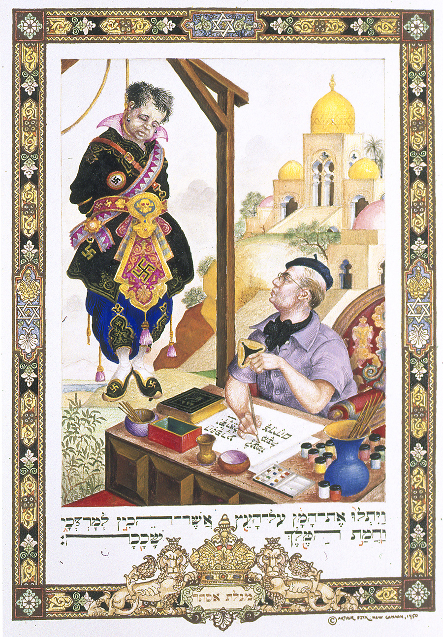 Szyk’s second Book of Esther (published posthumously in Israel in 1974) was illustrated in New England after World War II, once the horrors of Nazism were evident to the world. Szyk made plain the parallels between the recent Holocaust of European Jewry and the story of Jewish persecution in ancient Persia. In this image Haman (who wears a swastika) hangs from the gallows that he had prepared for his Jewish rival Mordechai; Szyk painted himself into the work as an observer with hamantaschen in hand, inscribing the Hebrew words: “The people of Israel will be liberated from their persecutors.”